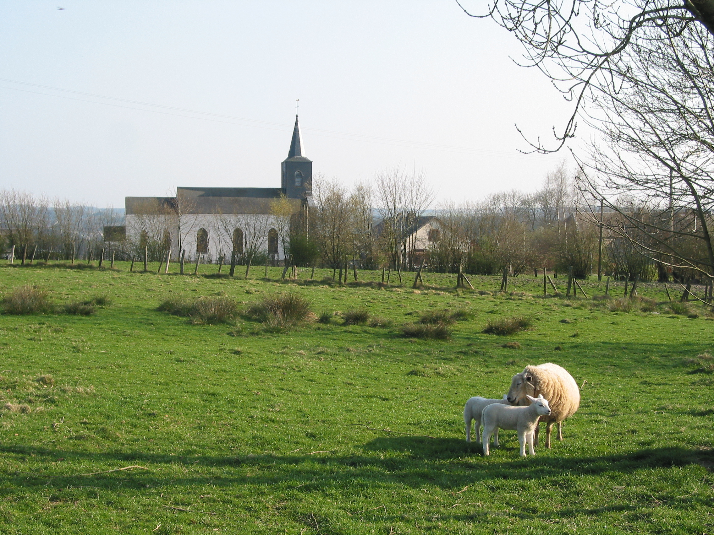 Mabompré (Belgium), the neighbourhood of St. Martin's church (1848).